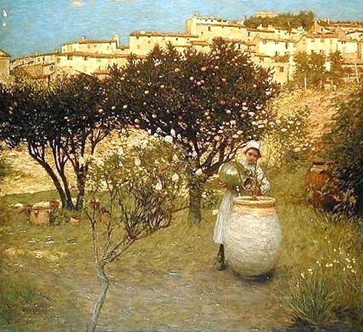 December in Provence